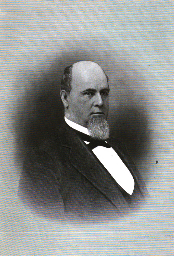 Kentucky Congressman Elisha Standiford